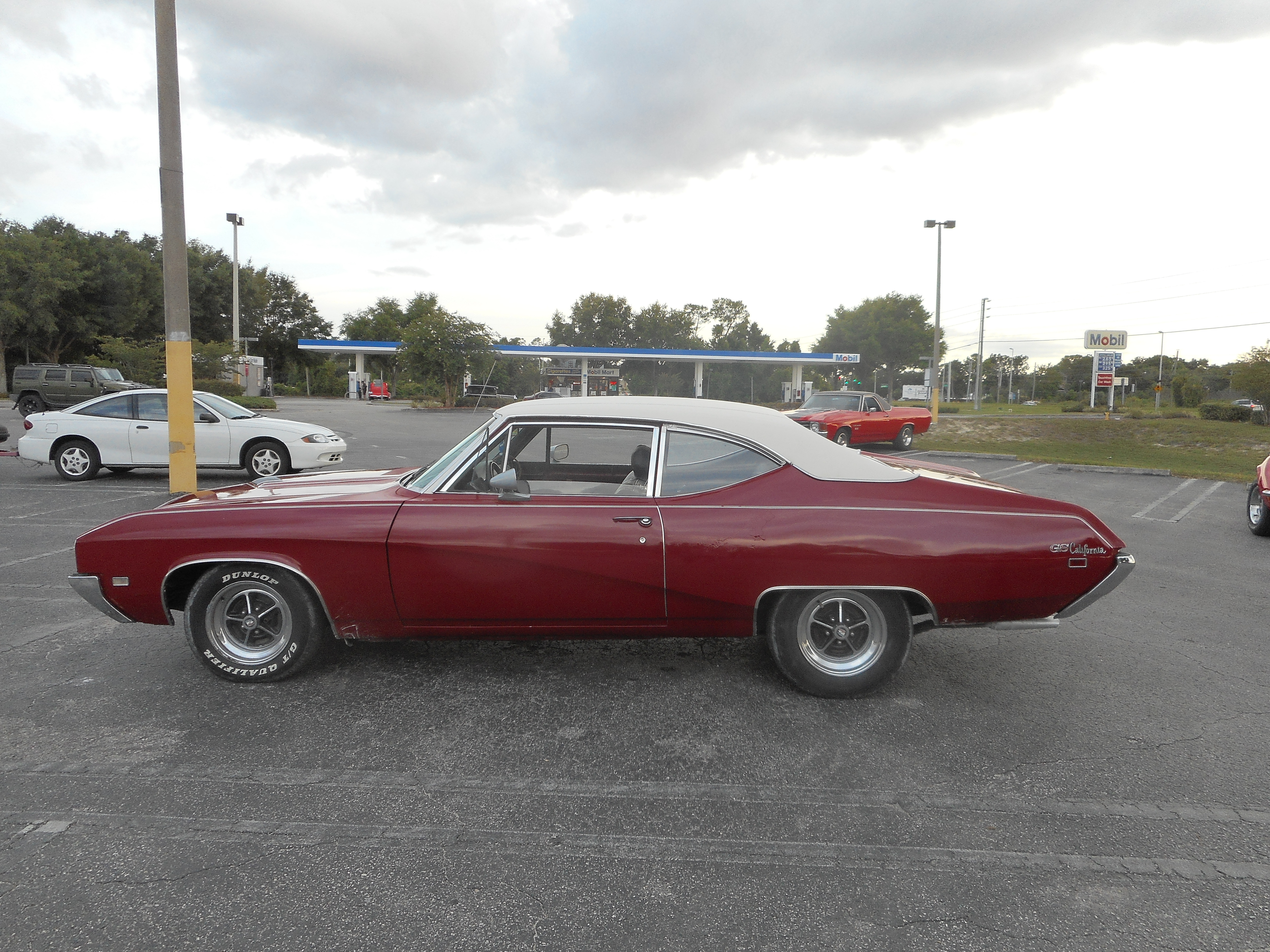 A rare circa-1969 Buick Skylark GS California, in of all places, the Spring Hill classic car show in Weeki Wachee, Florida. Posted to show evidence that this car existed.